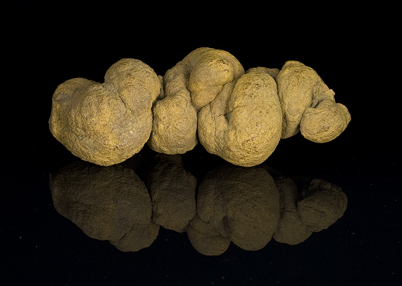 Coprolite (fossil feces) of a dinosaur (Not a coprolite. See discussion.)